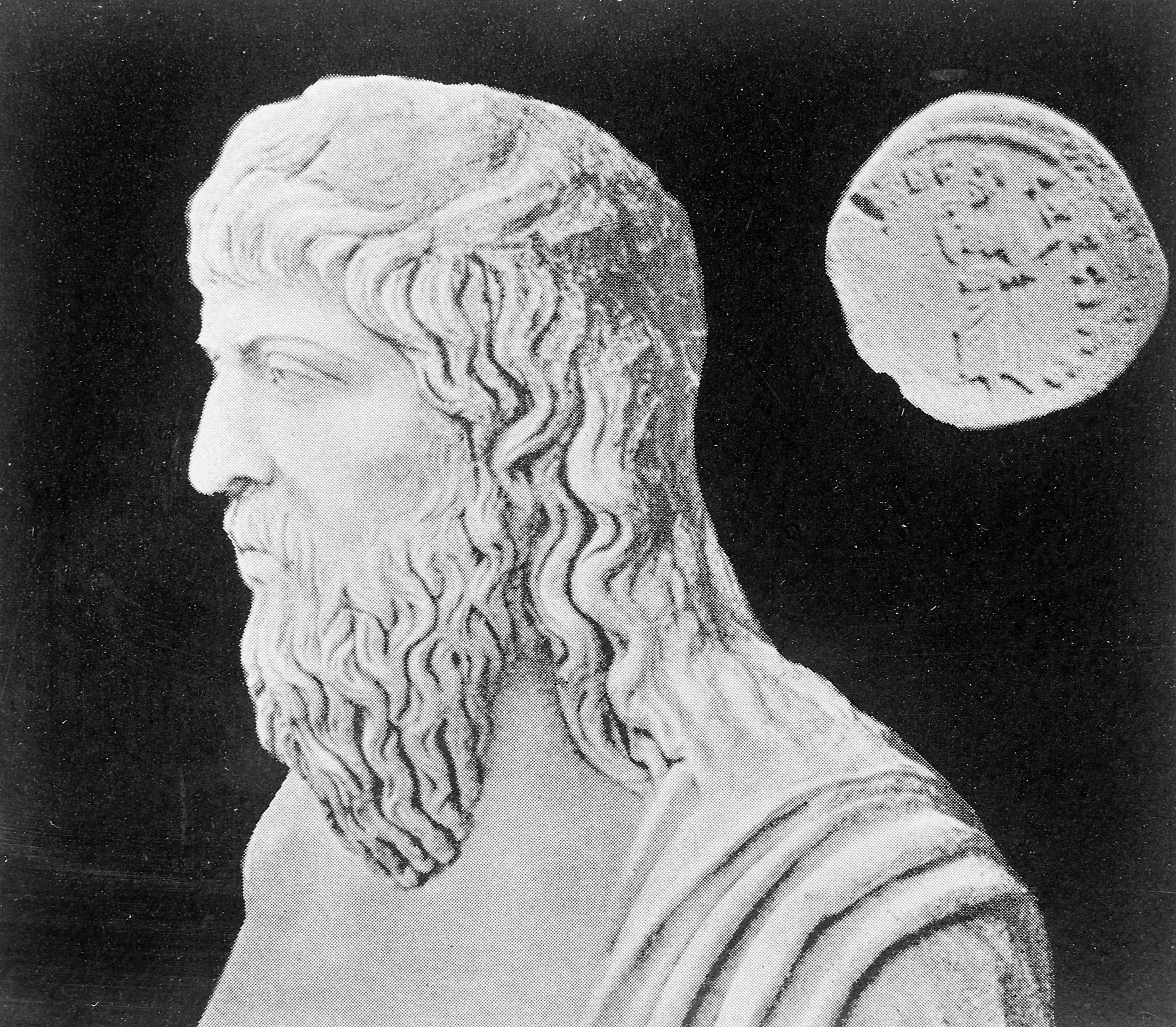 Heraclitus of Ephesius. Iconographic Collections Keywords: Peter Paul Rubens; J. Faber; Heraclitus